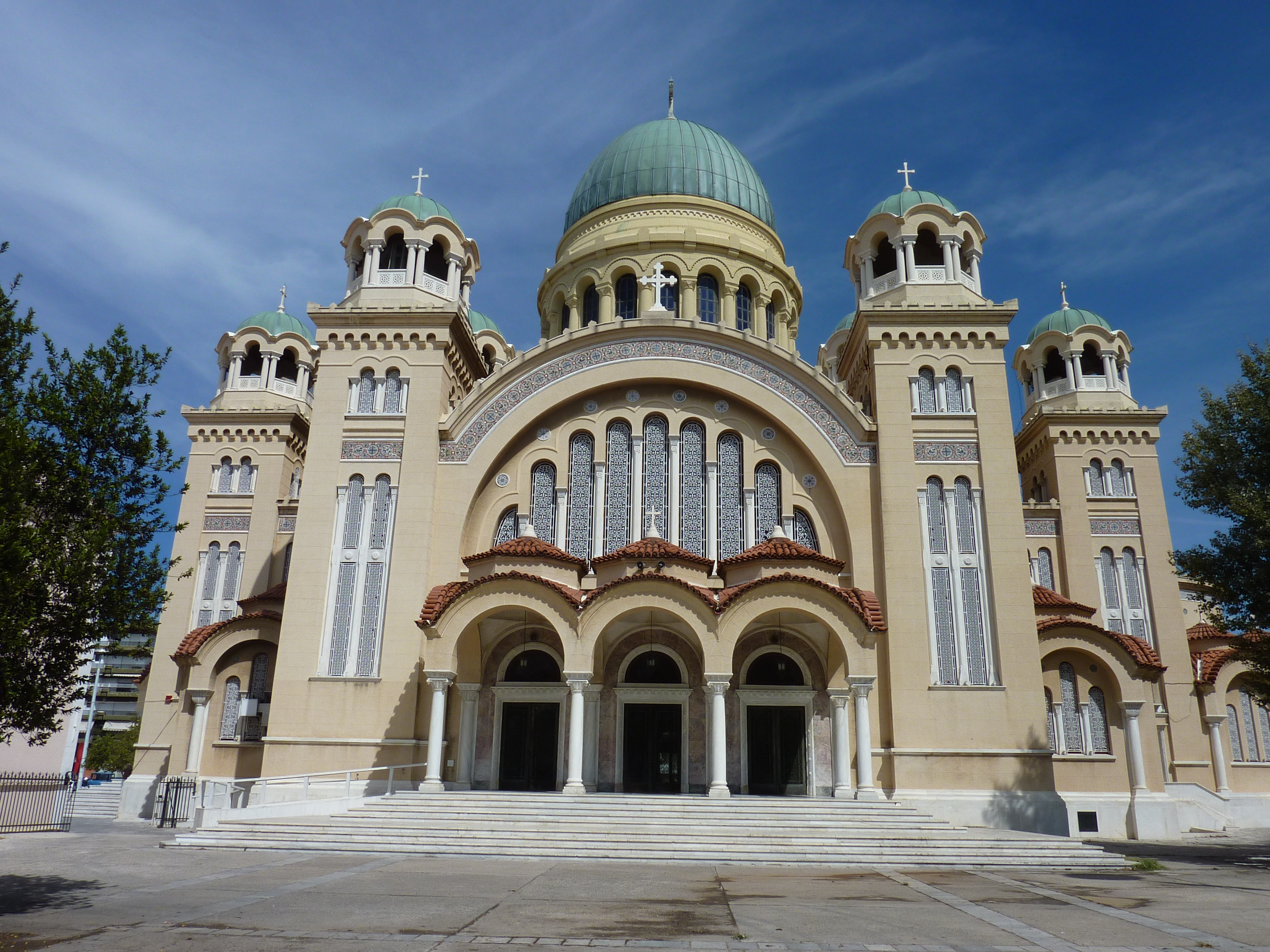 Hagios Andreas in Patras, Westseite